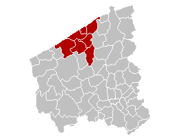 Location of Arrondissement Oostende in Belgium.